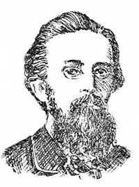 Russian botanist Peter Glehn (1835-1876)